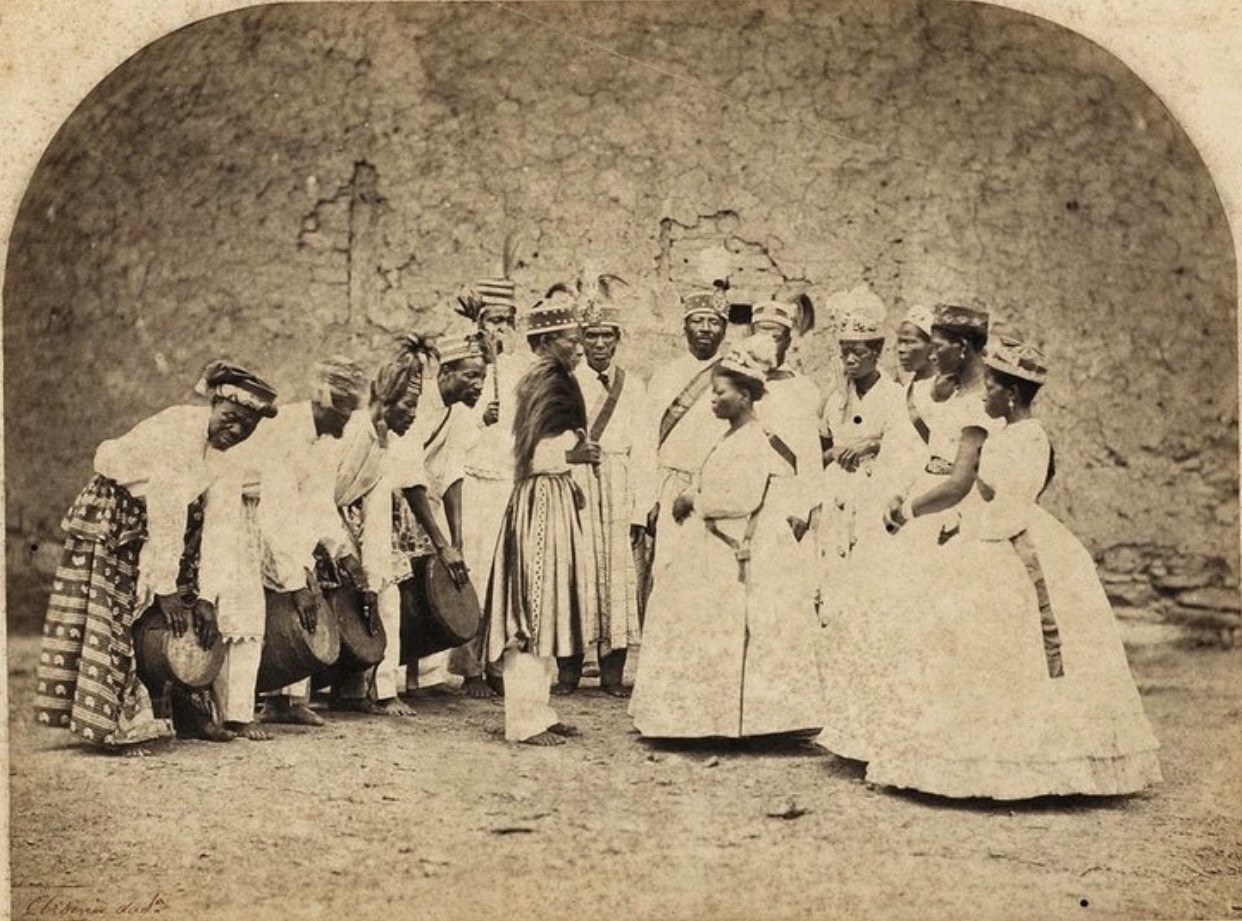 Congada in 1860. Photography ordered by Emperor Dom Pedro II, 18 x 24 cm